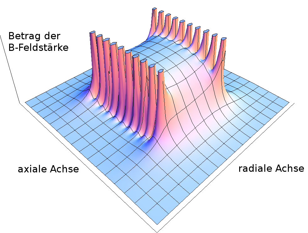 shows the strength of the magnetic field as a function of the position in a solenoid. The coil has ten windings. the cutting plane goes through the center in axial direction.